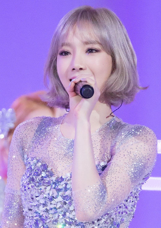 SNSD Taeyeon at Style Icon Asia Award on March 15, 2016